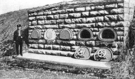 Photograph of a burial vault built circa 1890 to protect against premature burial. Caption said: "Premature burial is impossible when this vault is used. A person could live for hours in one of the compartments, or, at any rate, long enough to open the cover by turning the handwheel"